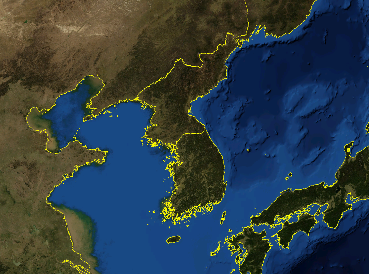 Satellite image of Korean Peninsula